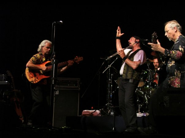 Jethro Tull in Jerisalem, 2007